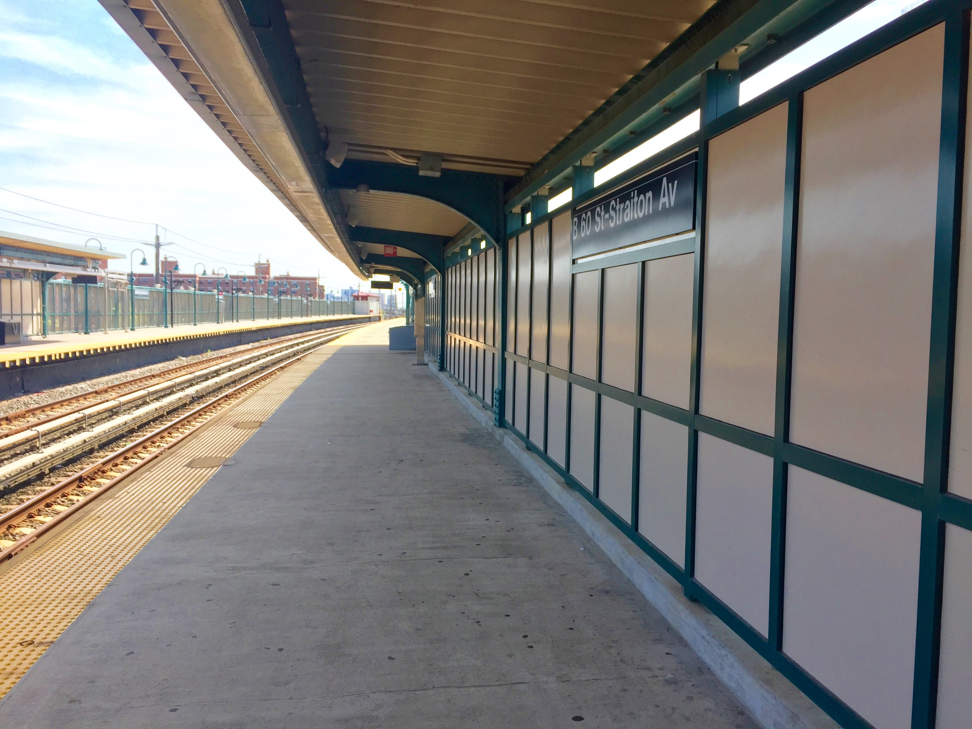 Mott Avenue bound platform at Beach 60th Street on the A.